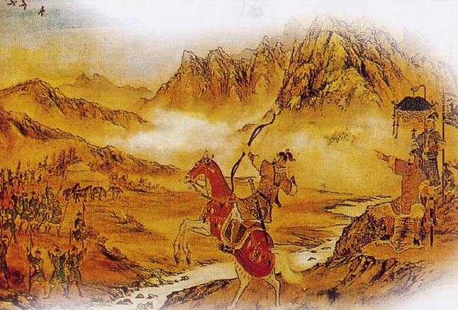 Battle of Mt. Kongsan